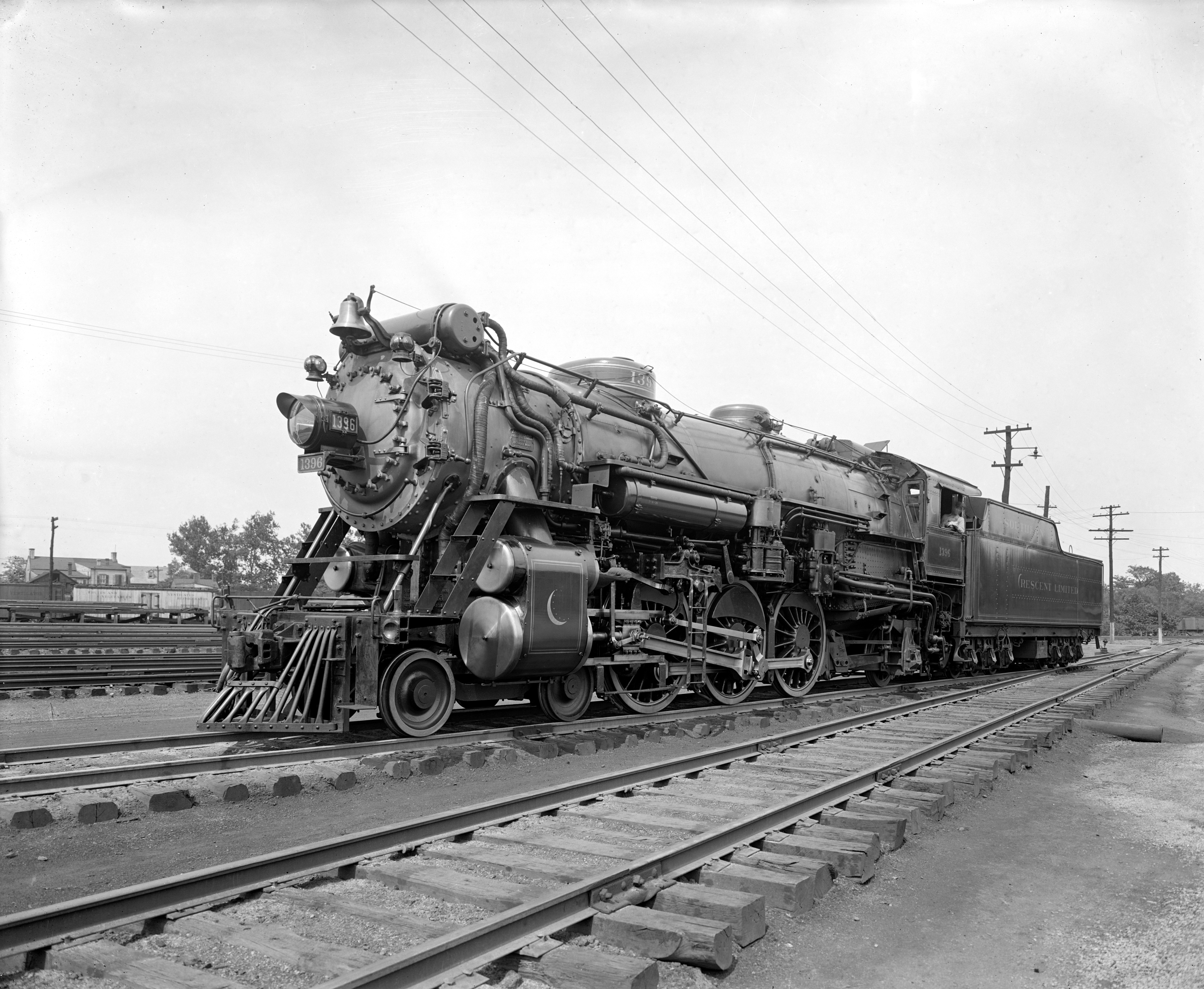 So. R.R. Co. Crescent Locomotive (Ps-4 class, 4-6-2)